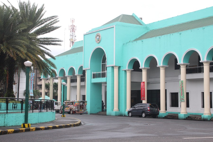 Albay Capitol